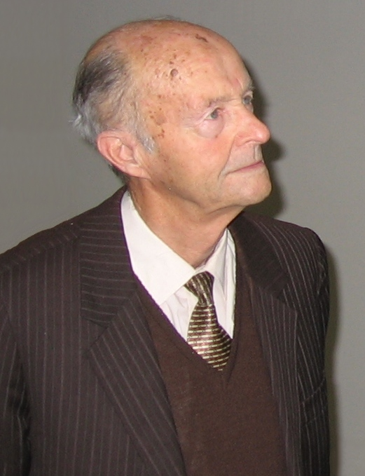 Portrait of Milan Mišík, Slovak geologist